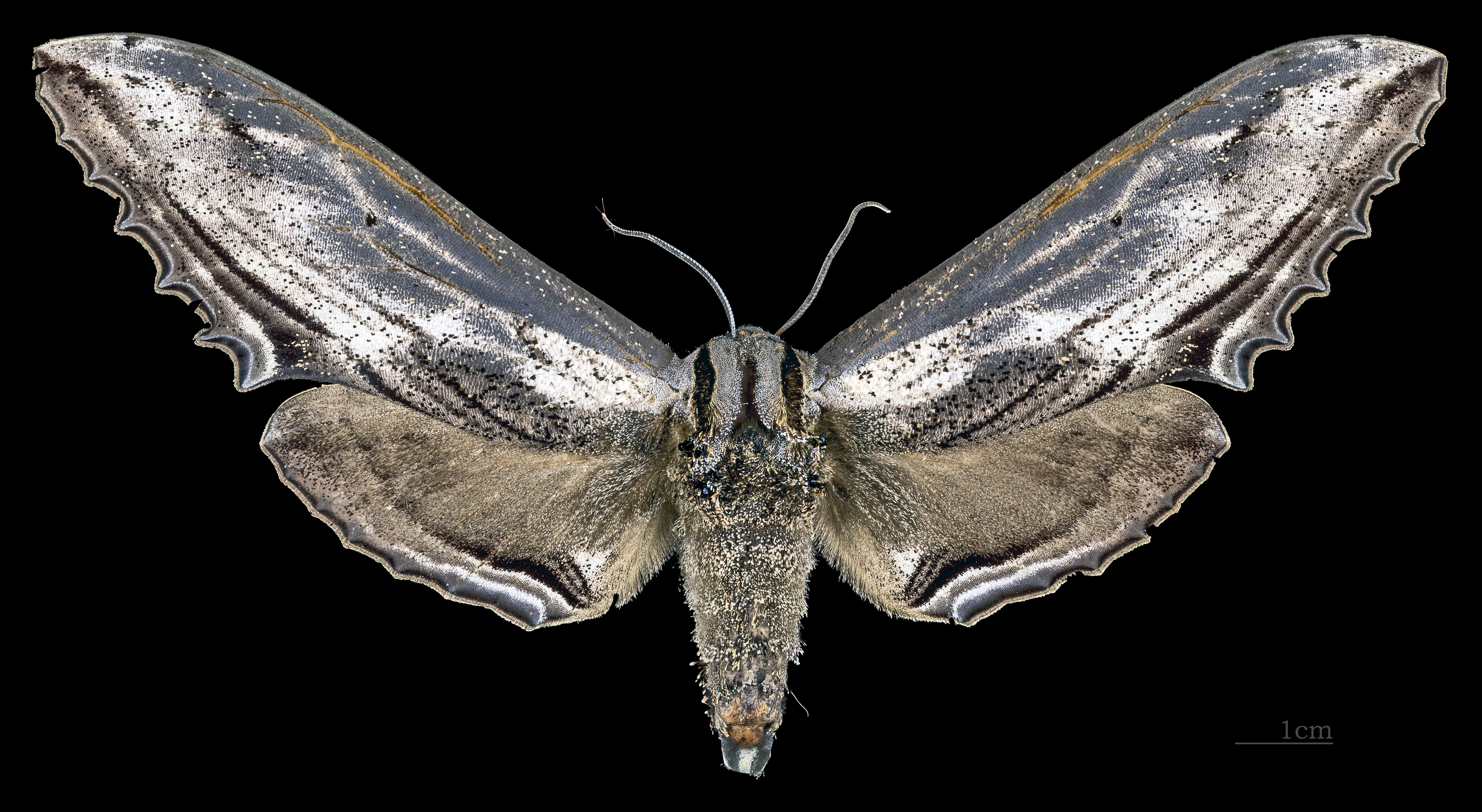 Langia zenzeroides formosana - Dorsal side Collection of the Mathematician Laurent Schwartz